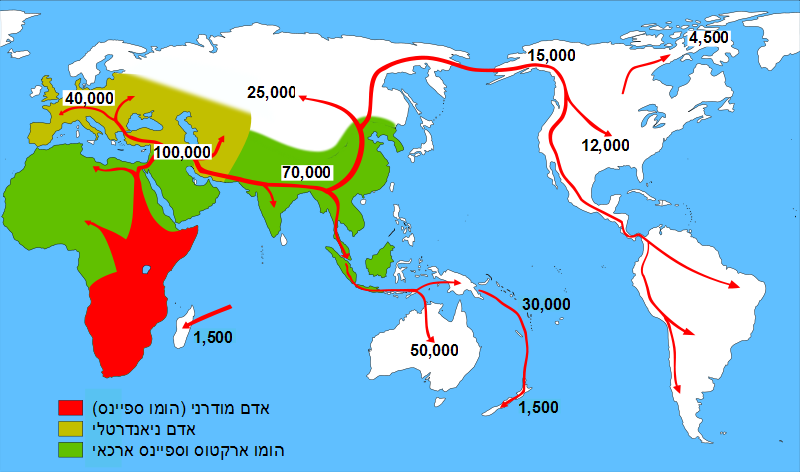 A Map of the spreading of Homo sapiens over the world, adapted from file Spreading homo sapiens.svg" and translated to Hebrew"